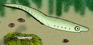 Reconstruction of the primitive chordate Zhongjianichthys rostratus, from the late Early Cambrian of China